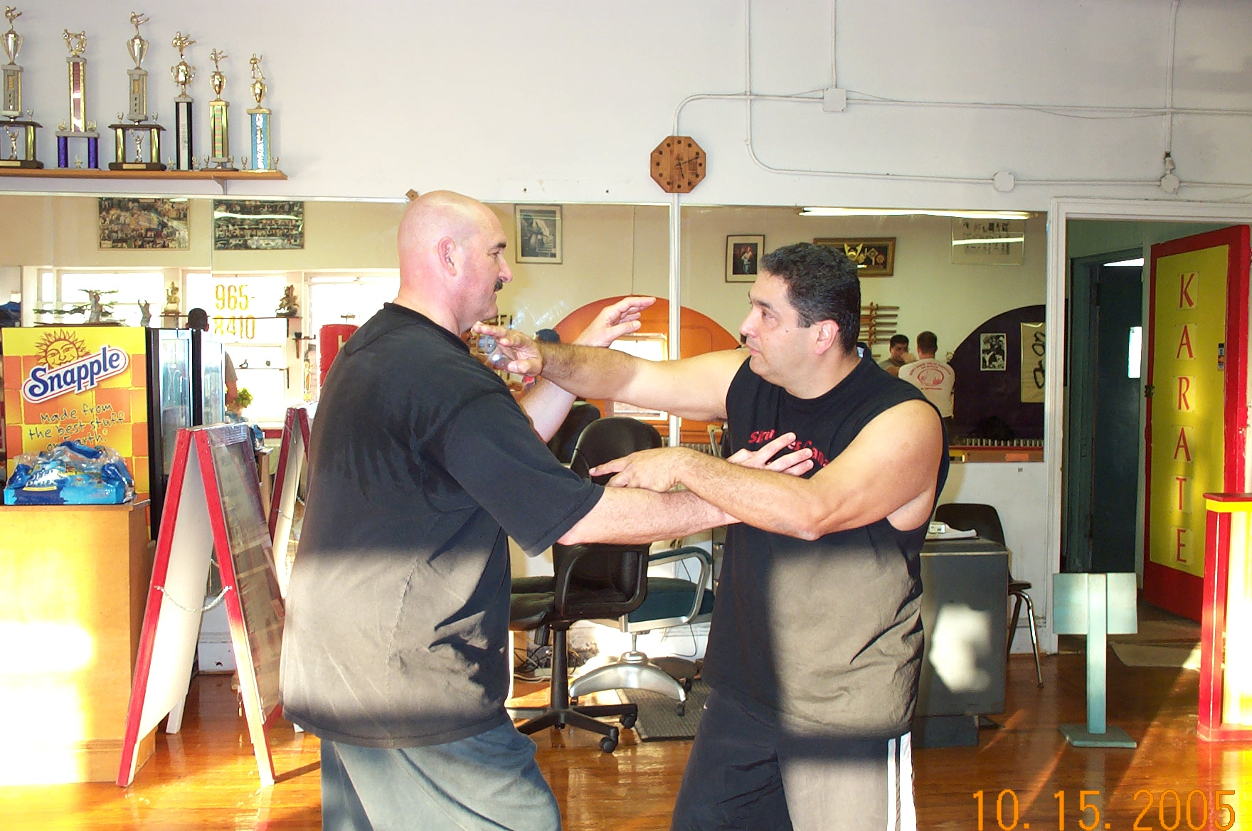 Late sifu James Cama with a student. Year 1995.